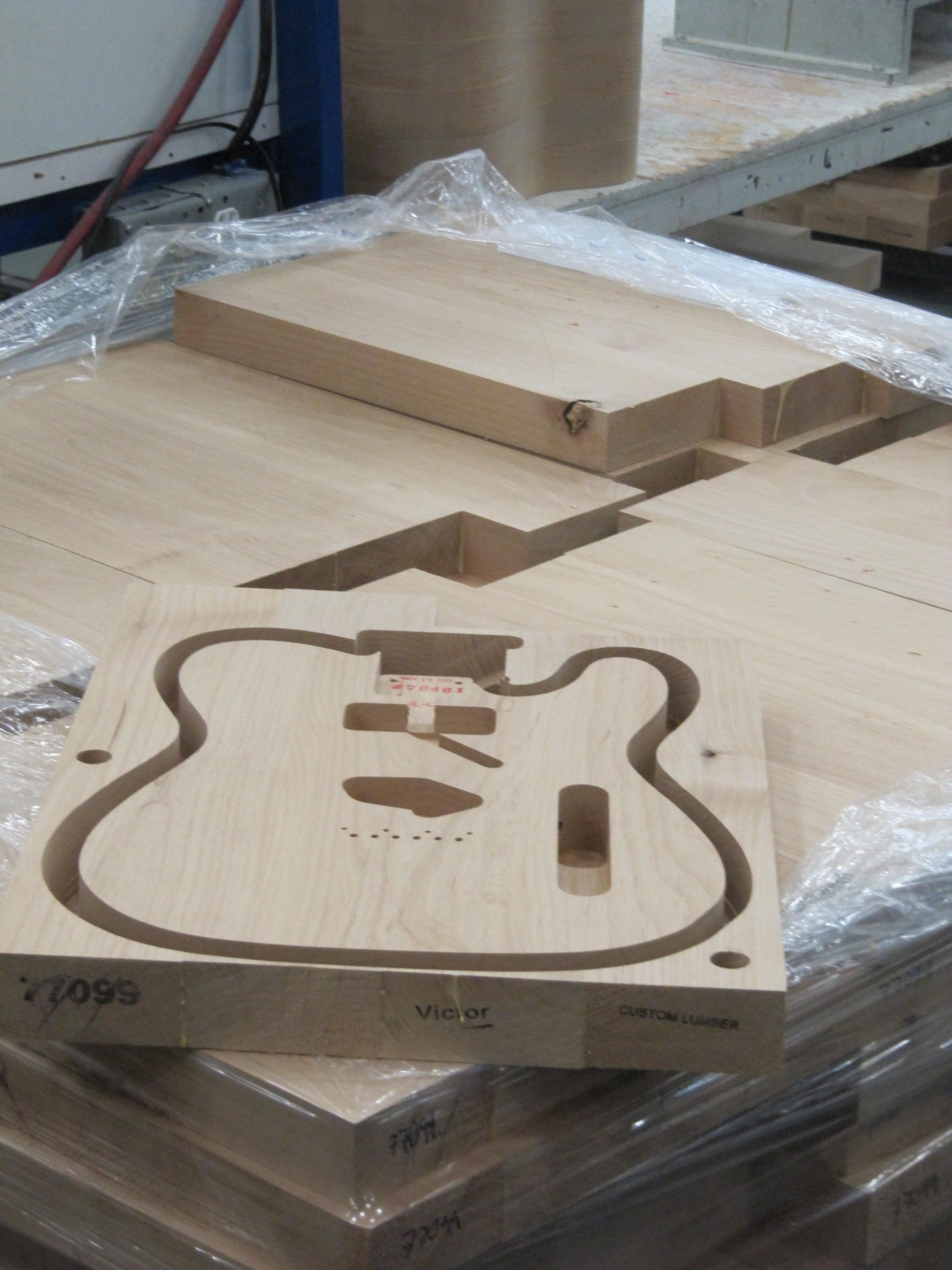 Fender Guitar Factory tour 13. body cutout